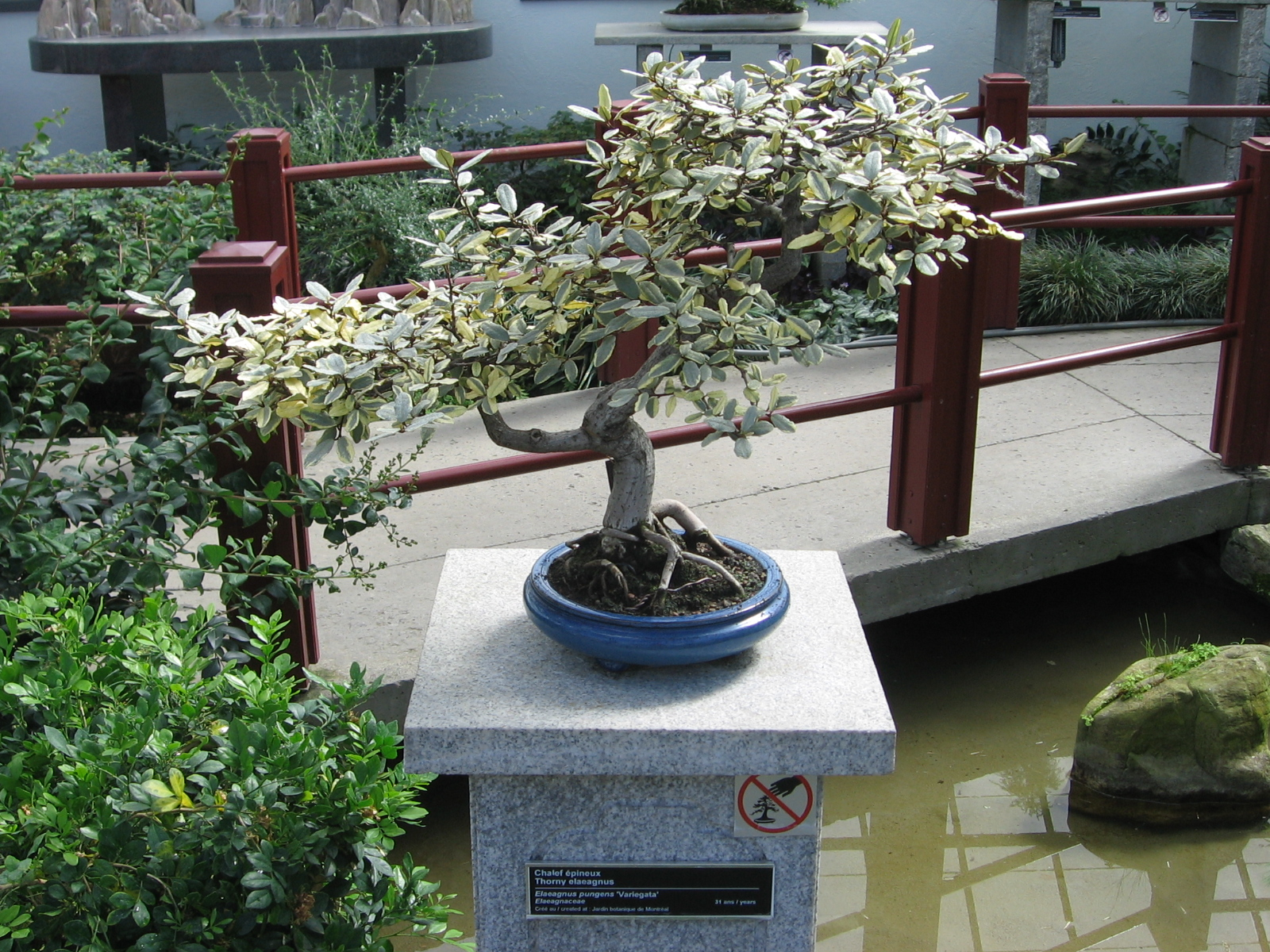 Thorny elaeagnus bonsai, Elaeagnus pungens, Jardin botanique de Montréal.